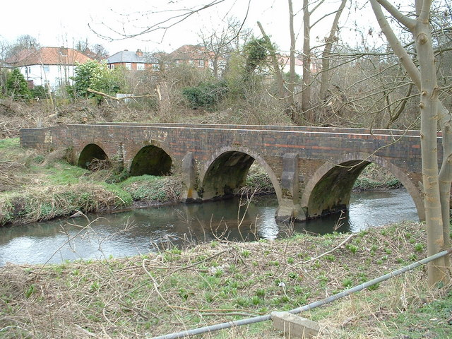 Four Arches Bridge This is the old four arches bridge. Previously, this used to link Webb Lane and the Old Brook Lane. There is evidence of a tunnel under the railway line, but this eventually became disused. The Four Arches bridge now provides a footpath between Coleside Avenue and the Dingles Recreation ground in Hall Green across the River Cole.